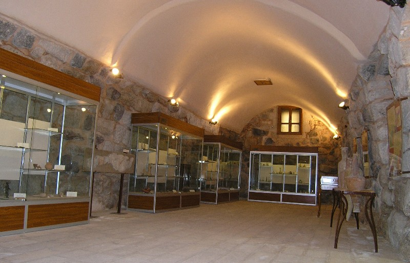 Archeological Museum in Irbid, Jordan